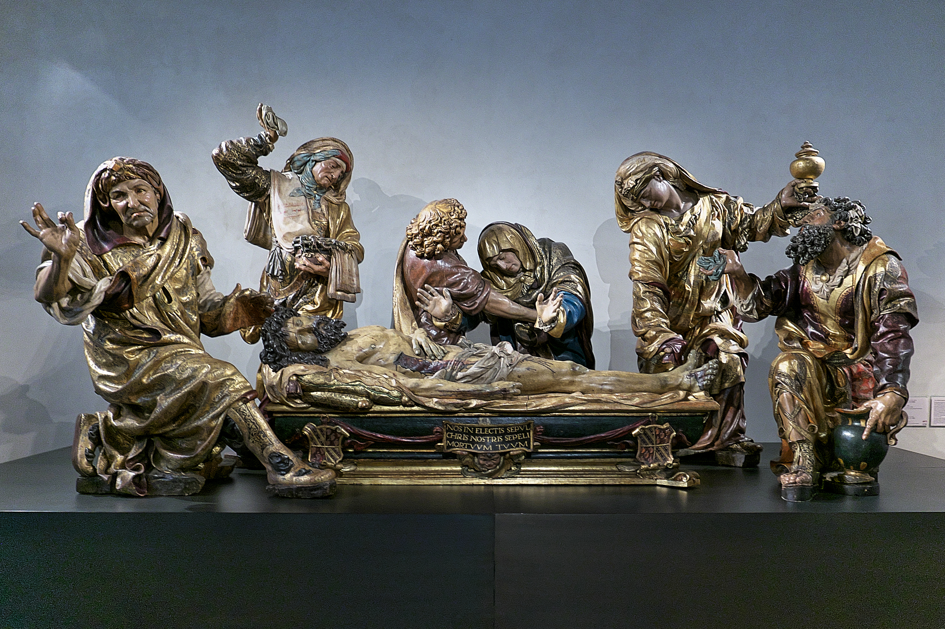 THE BURIAL OF CHRIST, Juan de Juni (c. 1507-1577). Around 1540, polychrome wood. Convent of San Francisco, Valladolid. Disentailment.